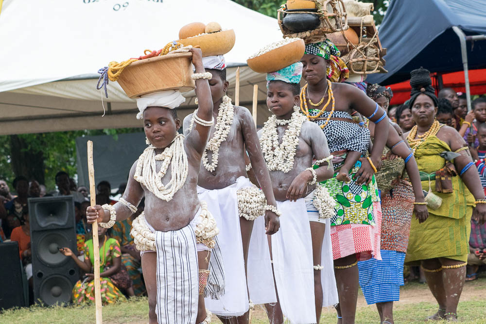 children adorned with cowries during the 53 hogetsotso festival signifying how the Anlos migrated from Notsie to there curent location This is an image of Cultural Fashion or Adornment from Ghana